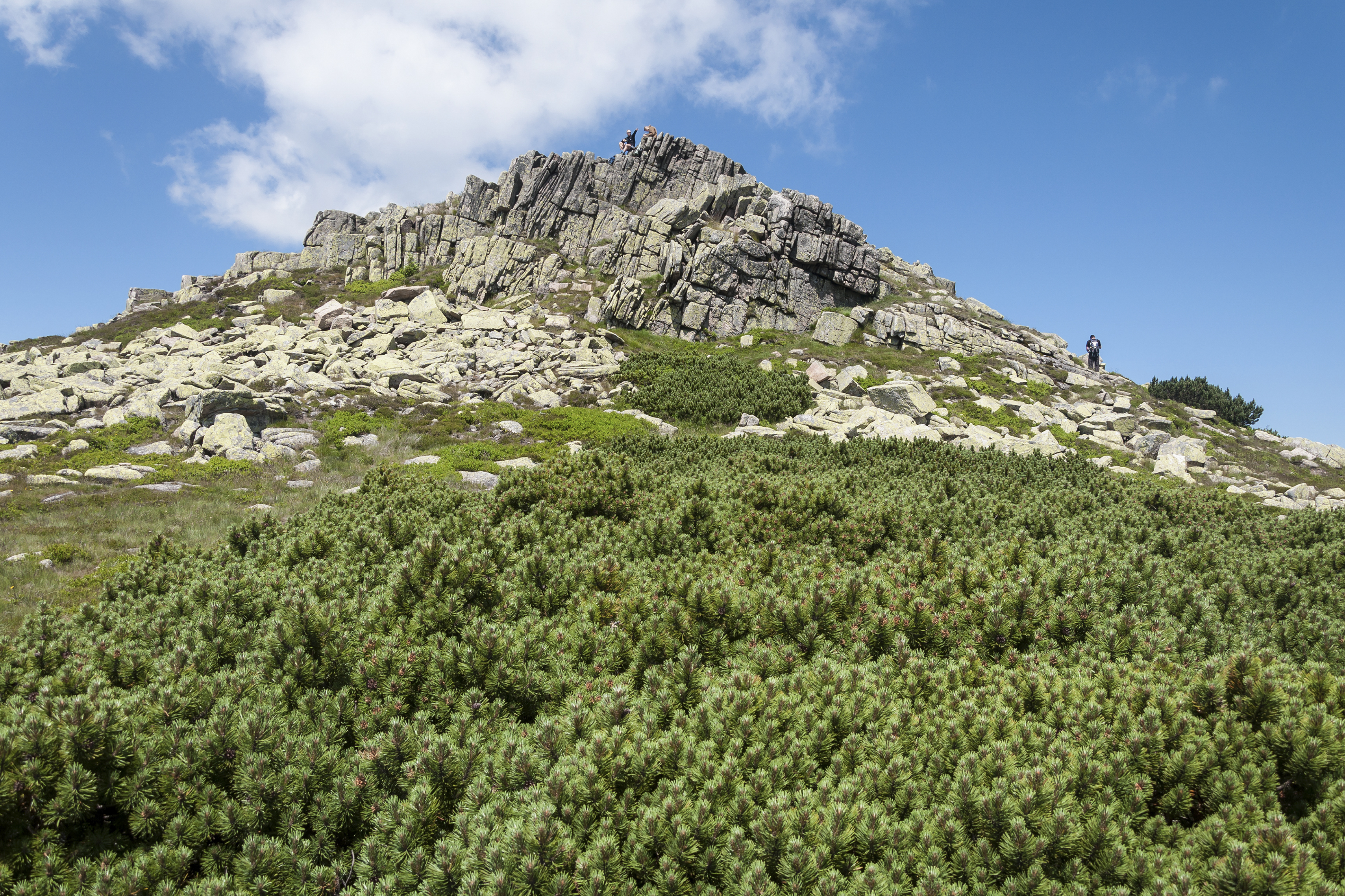 Łabski Szczyt, Karkonosze, Sudetes